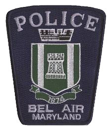 Patch worn by members of the Bel Air Police Department.